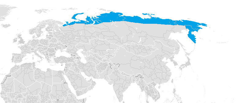 Tundra wolf (Canis lupus albus) range.